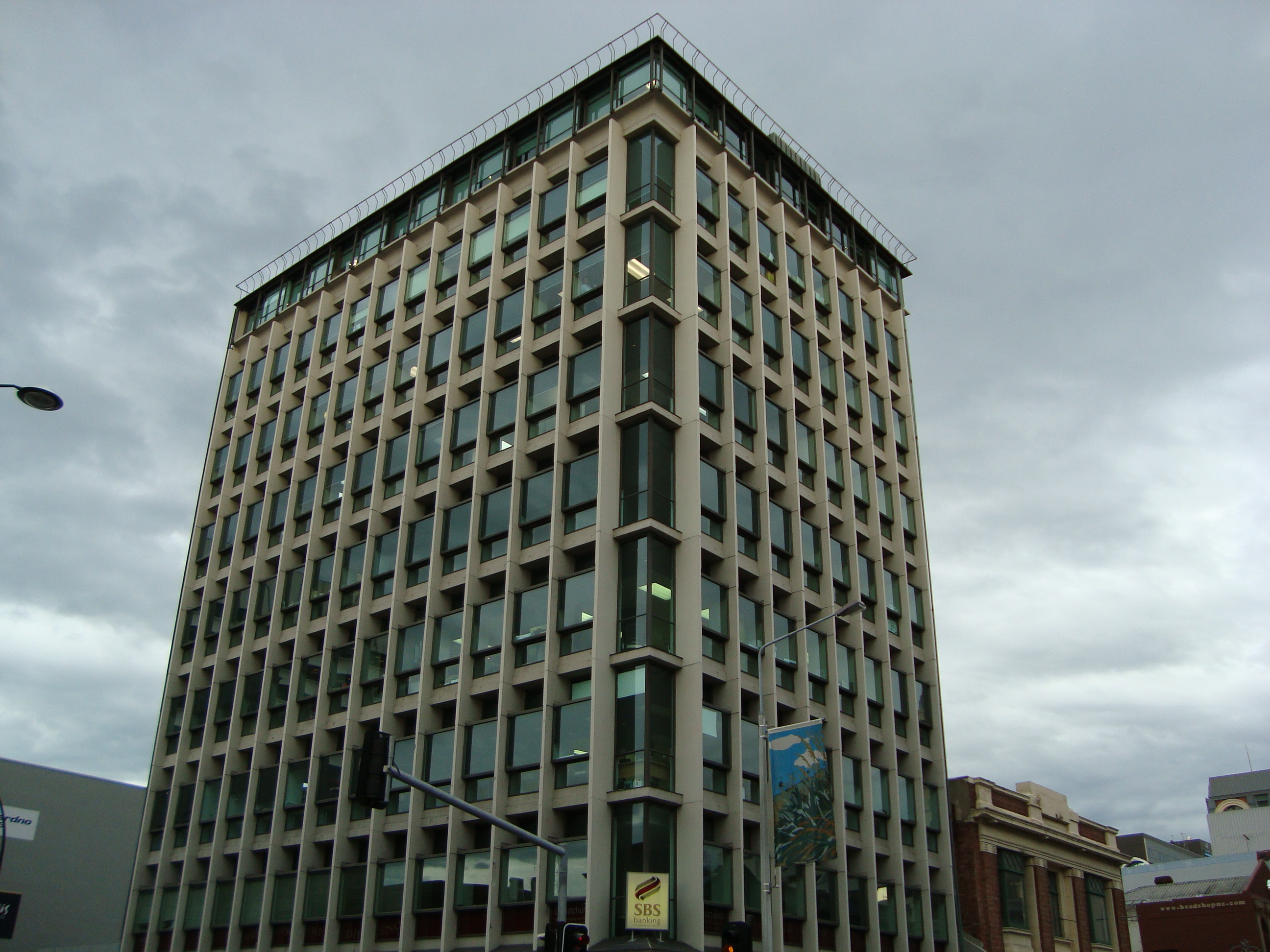 SBS House, formerly the Manchester Unity Building, Christchurch.